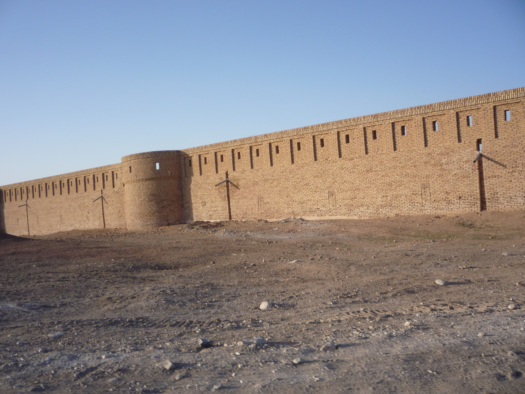 Maranjab Castle, in Isfahan - Iran.